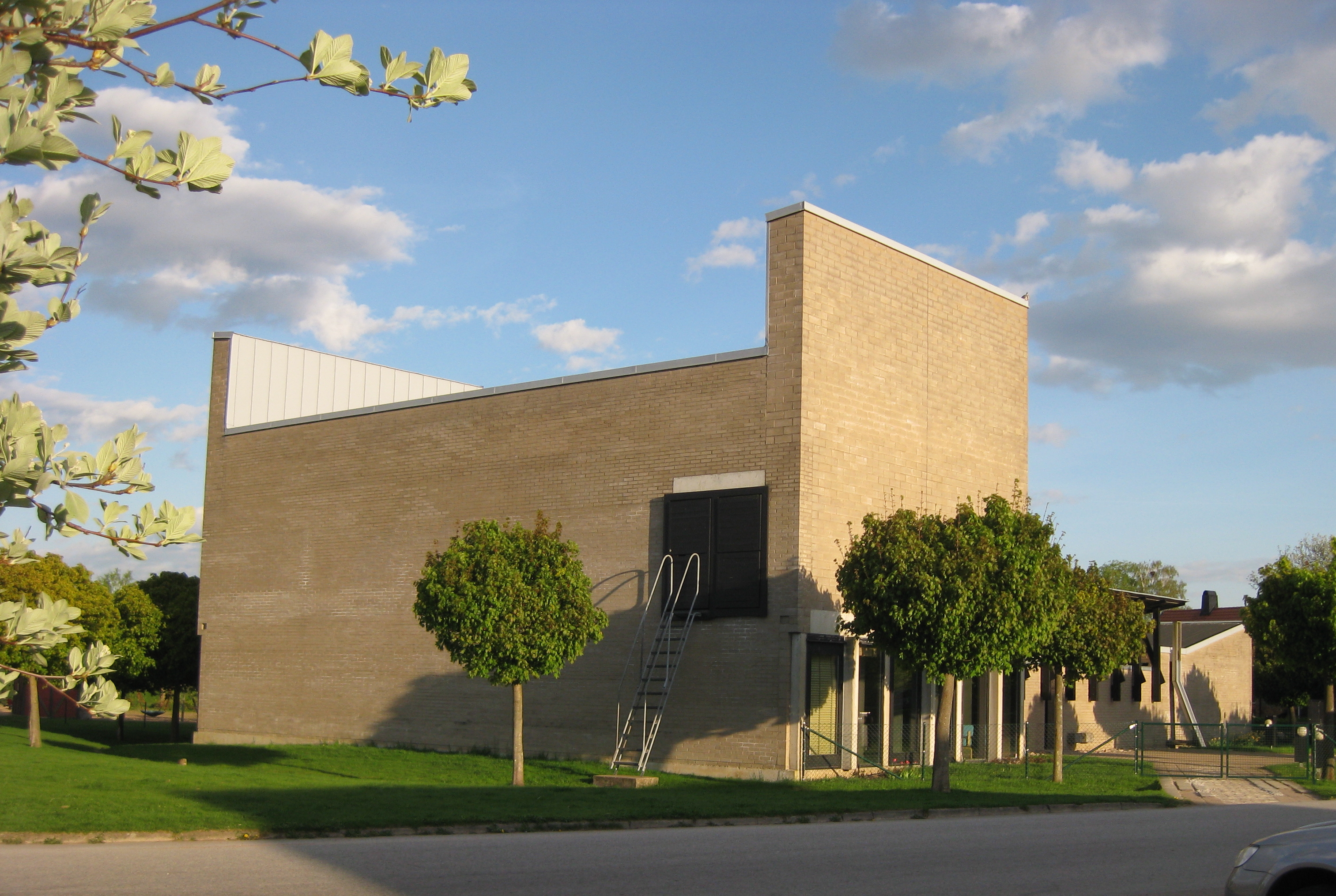 Hyllinge minor church in Skåne, Sweden